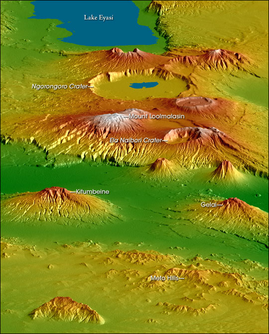 Topographical map of the Crater Highlands in Tanzania. Color indicates height, with lowest elevations in green and highest elevations in white. Shading shows the slope. The vertical relief has been exaggerated by a factor of 2 to reveal greater detail about the landscape. The image is oriented as though you were looking from the north toward the southwest.